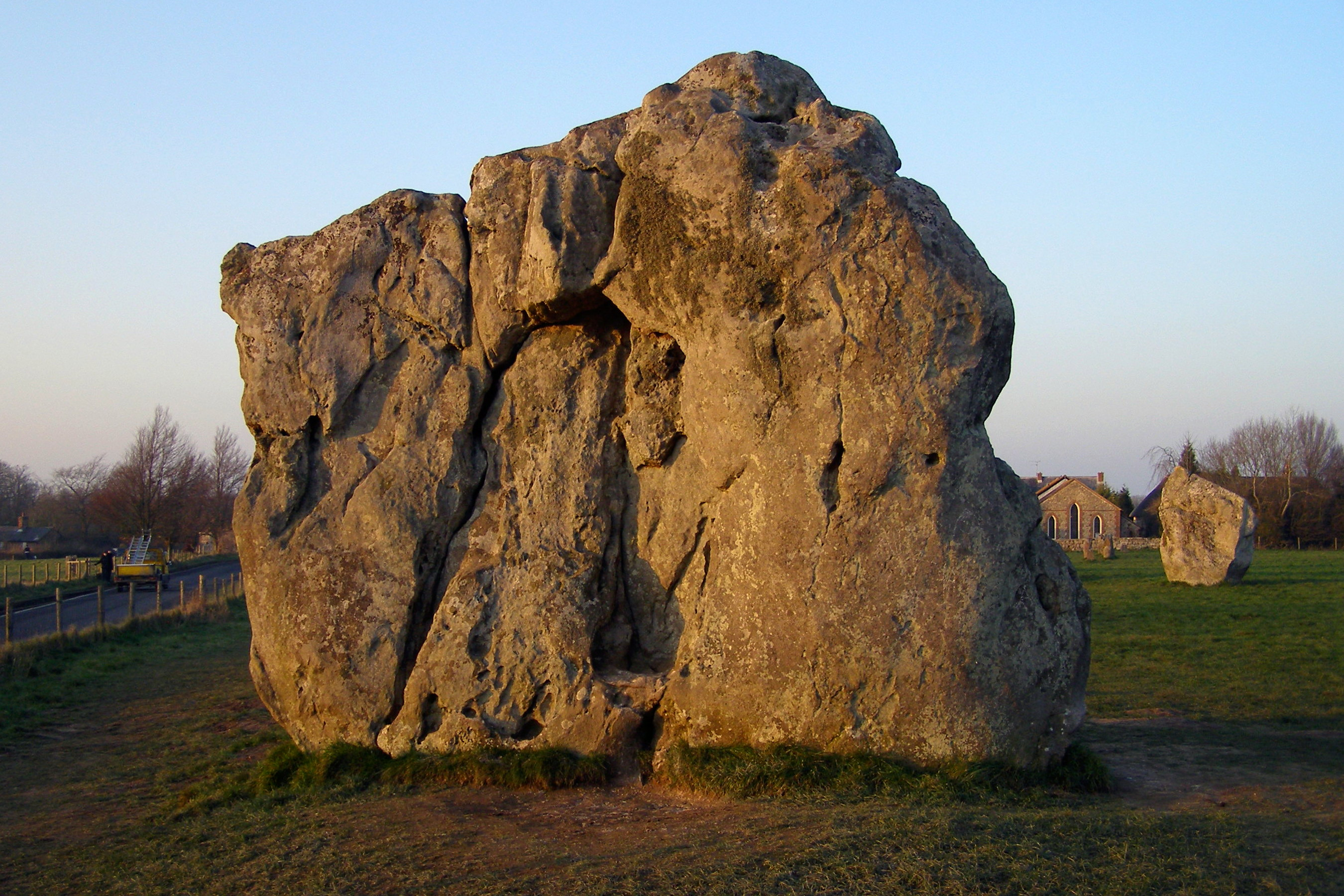 Stone 1 in the Great Circle at Avebury henge, Wiltshire, U.K. Also known as the Devil's Chair or Devil's Seat. This guardian stone in the Great Circle has a 'seat' on this south-facing side. Beyond, to the right, is stone 101 of the inner South Circle.